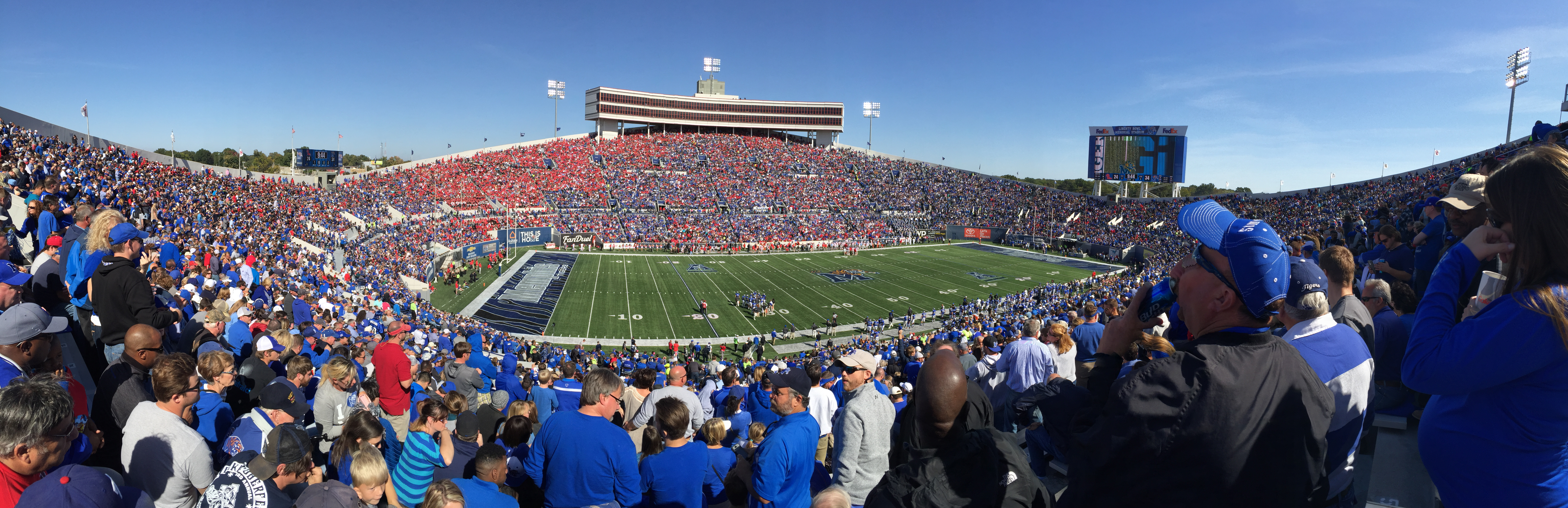 Panorama of Liberty Bowl Memorial Stadium during a game against Ole Miss on 16 October 2015 in Memphis, TN. Memphis won 37-24.